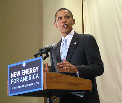 personal image taken in 2008 at Baldwin-Wallace College